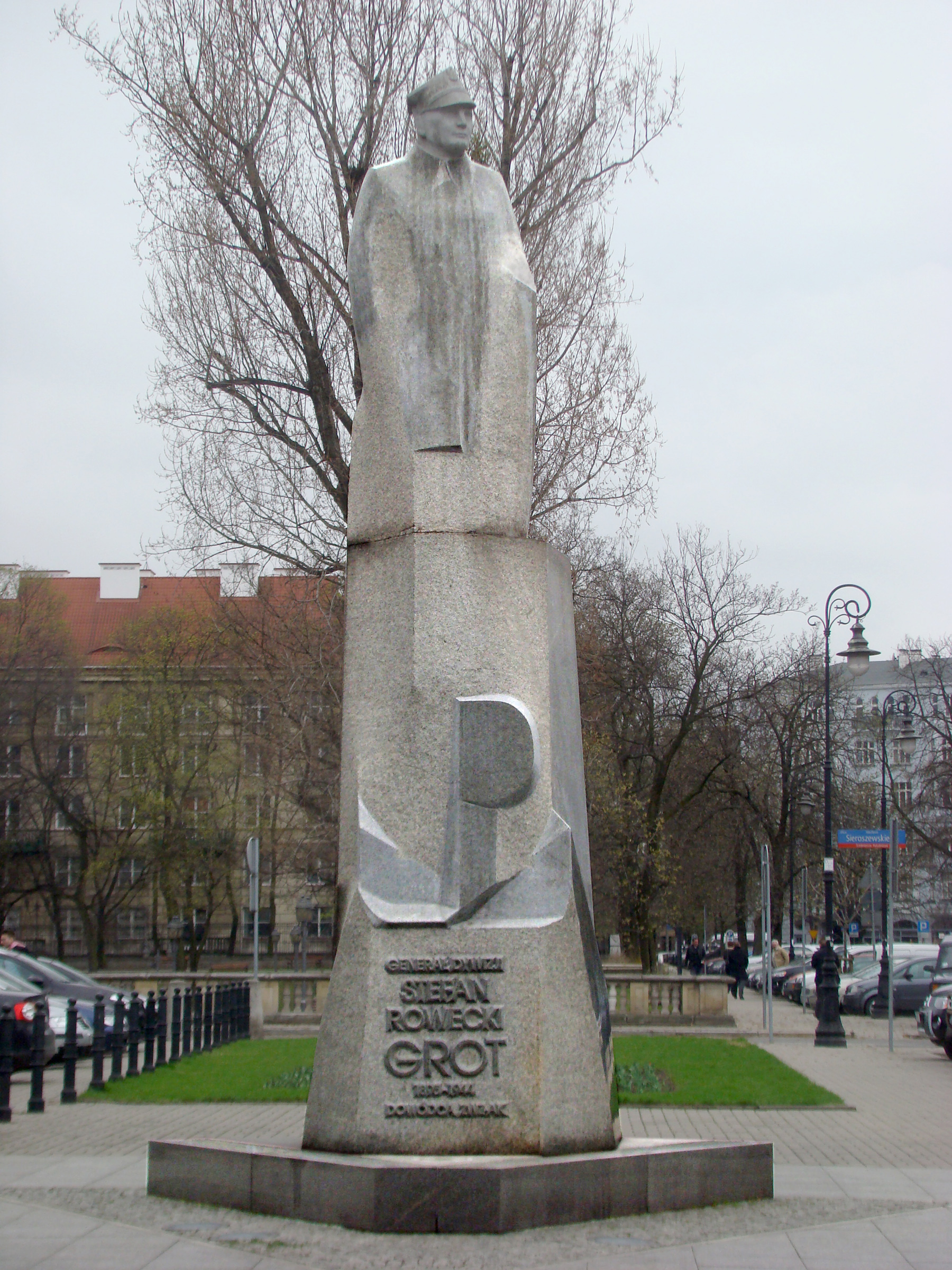 Stefan Rowecki "Grot" monument in Warsaw, Chopina St.